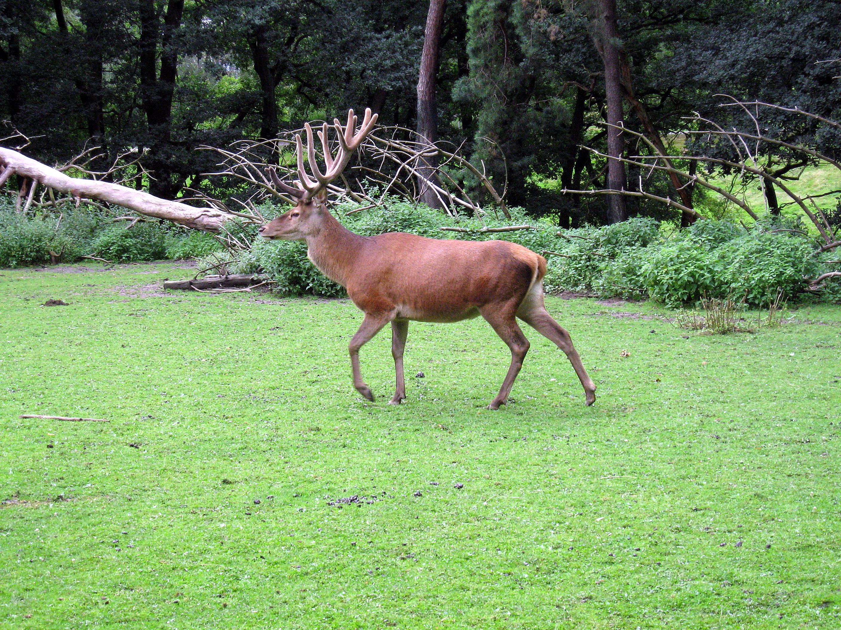 Dortmund, Tierpark, Rotwild (Cervus elaphus)